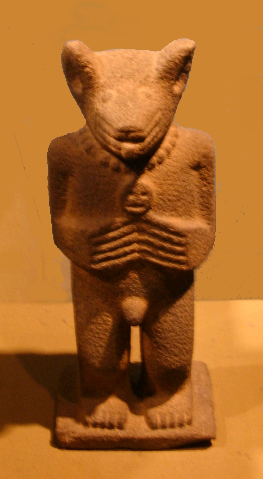 An anthropomorphic coyote or a male human with a coyote head. Tarascan state. Height: 43.5 cm (17 in)